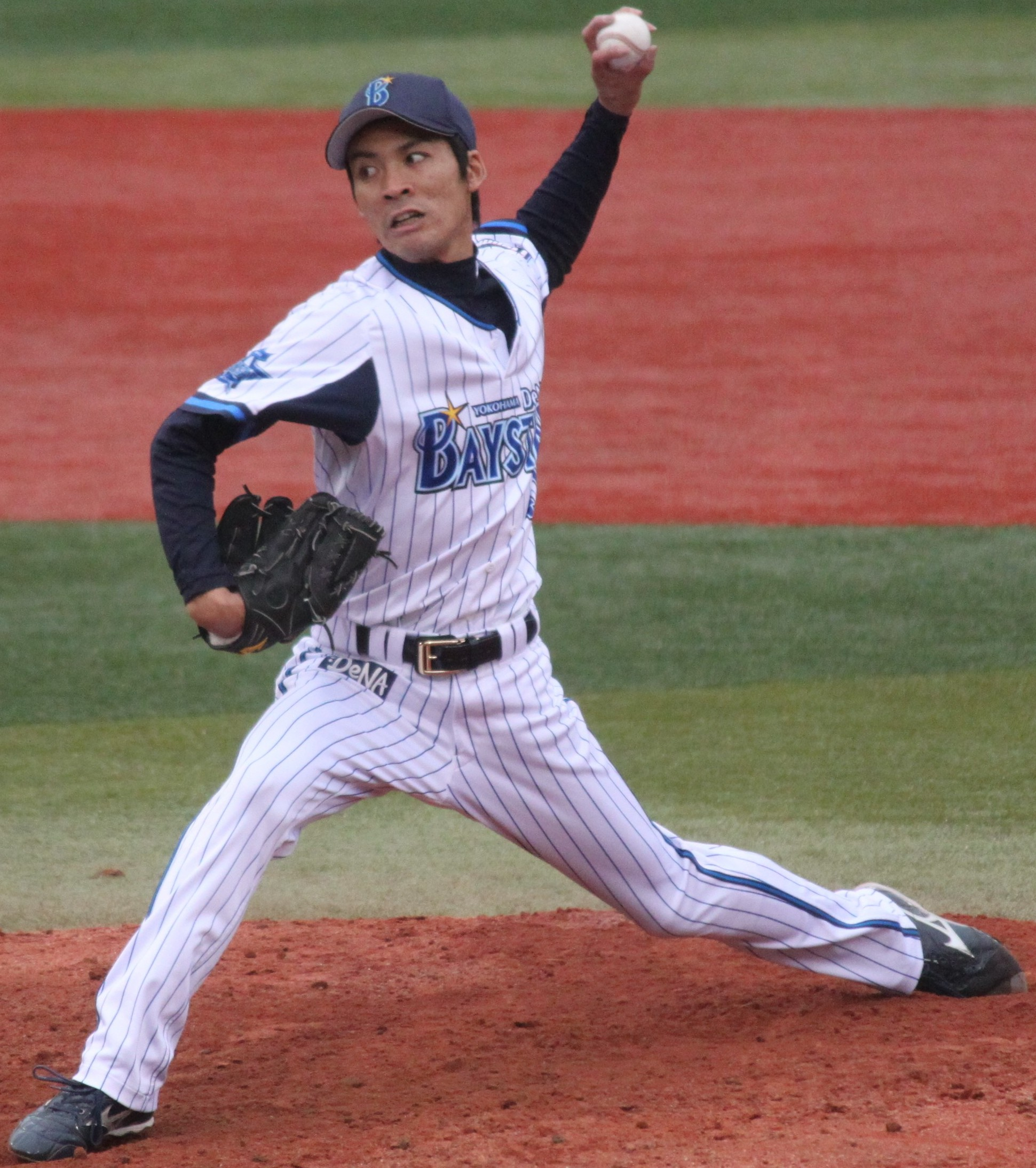 Shinji Ohara, pitcher of the Yokohama DeNA BayStars, at Yokohama Stadium.